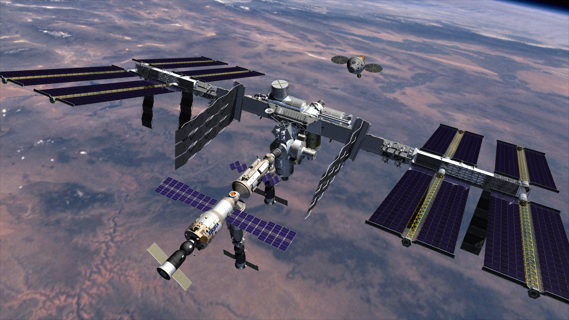 Orion Spacecraft approaching ISS (May 2007)